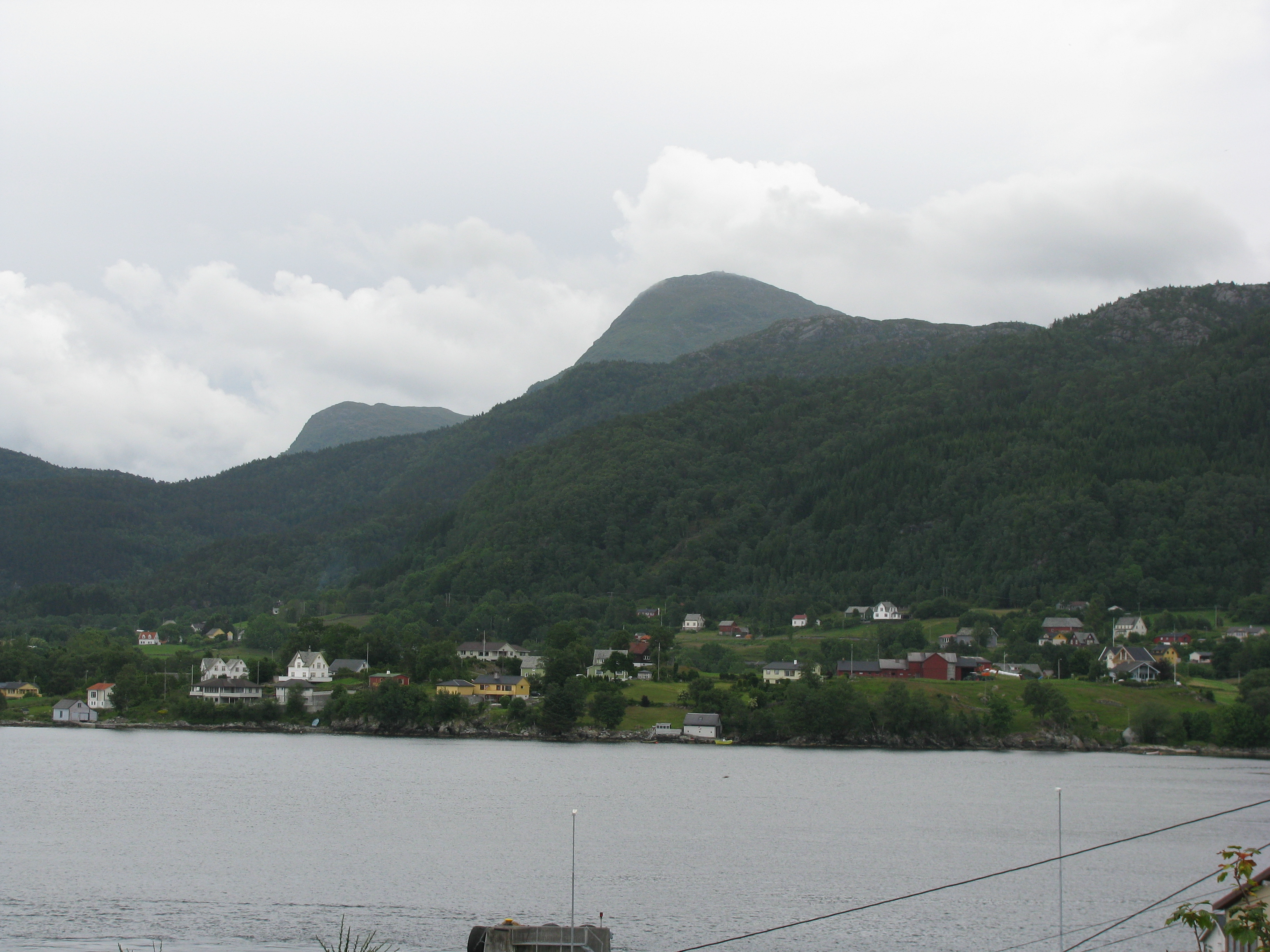 A photo showing a part of Våge, the most densely populated place in the municipality of Tysnes, Hordaland, Norway. The peak to the right is Tysnessåto.